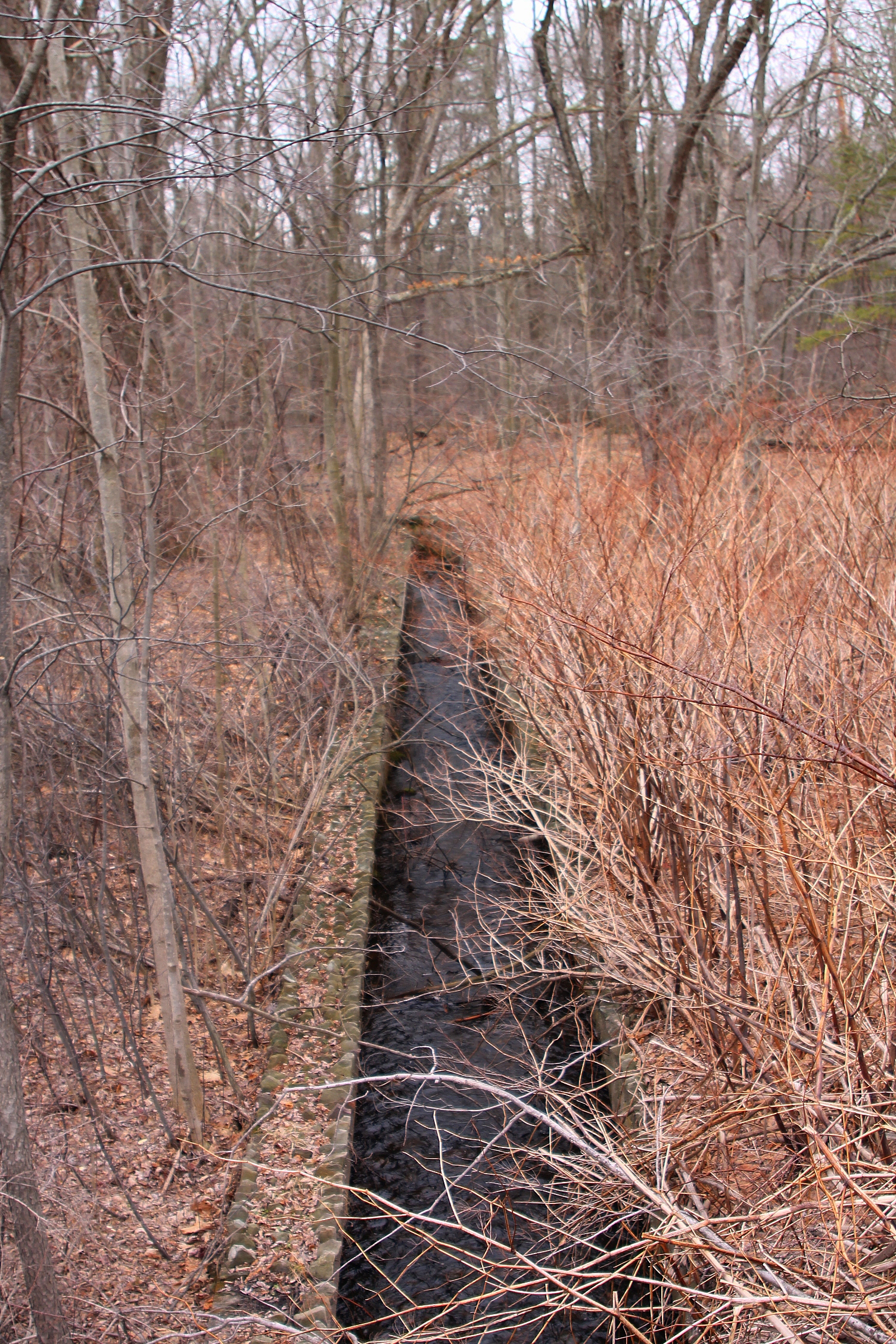 Roaring Brook looking downstream at its headwaters. It is flowing through some kind of manmade channel.